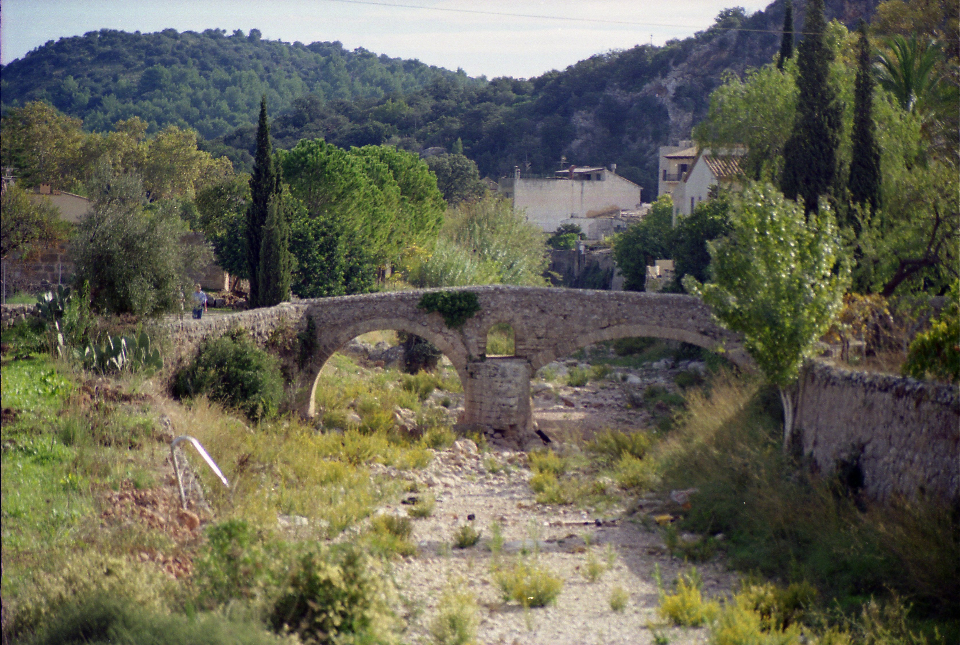 The old roman bridge which crosses a torrent surrounding Pollensa on Mallorca. Viewed in 1999. Film: Kodak Gold.